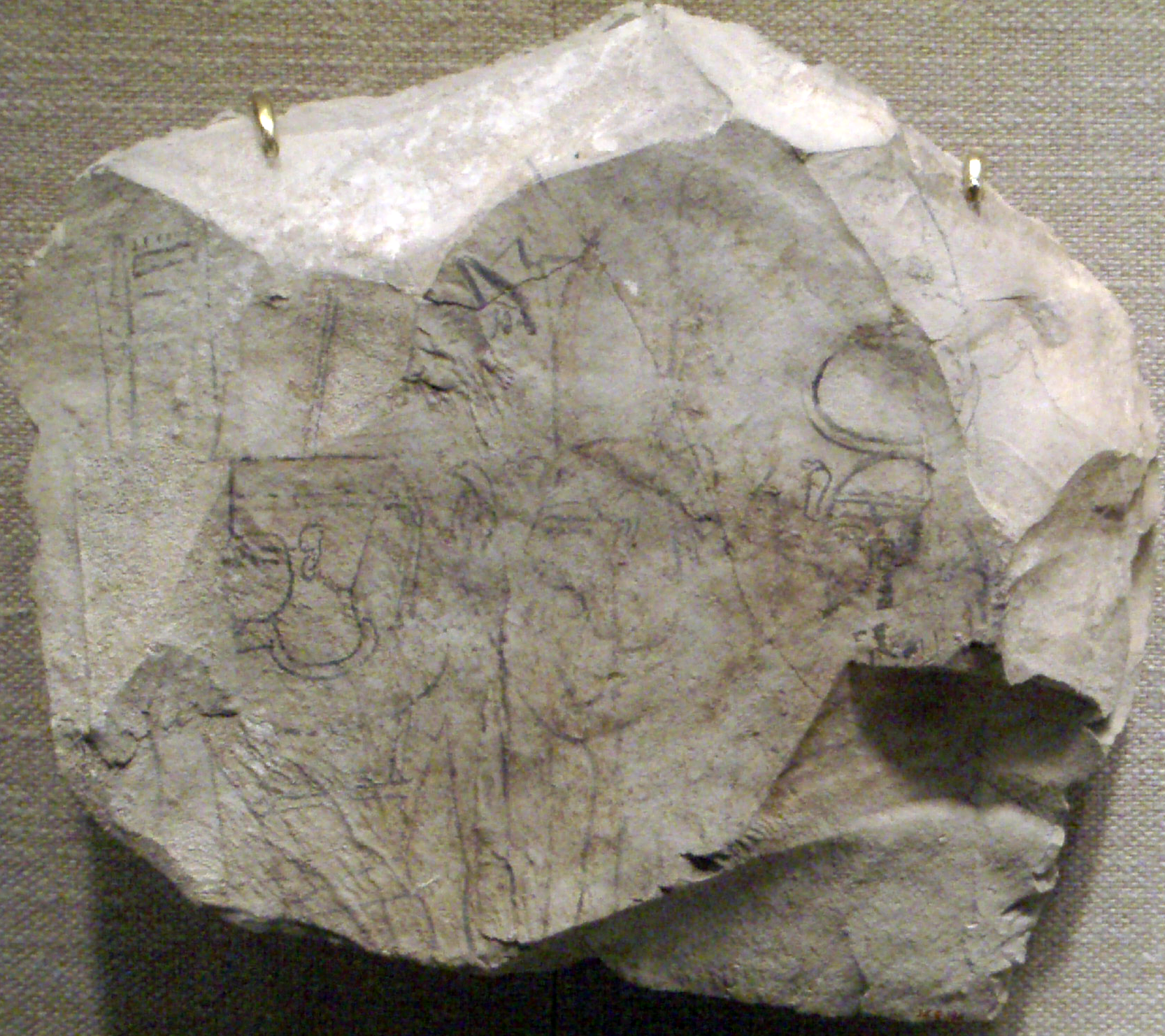 Ostracon from the Ramesside period, dynasties 19-20. From Thebes.